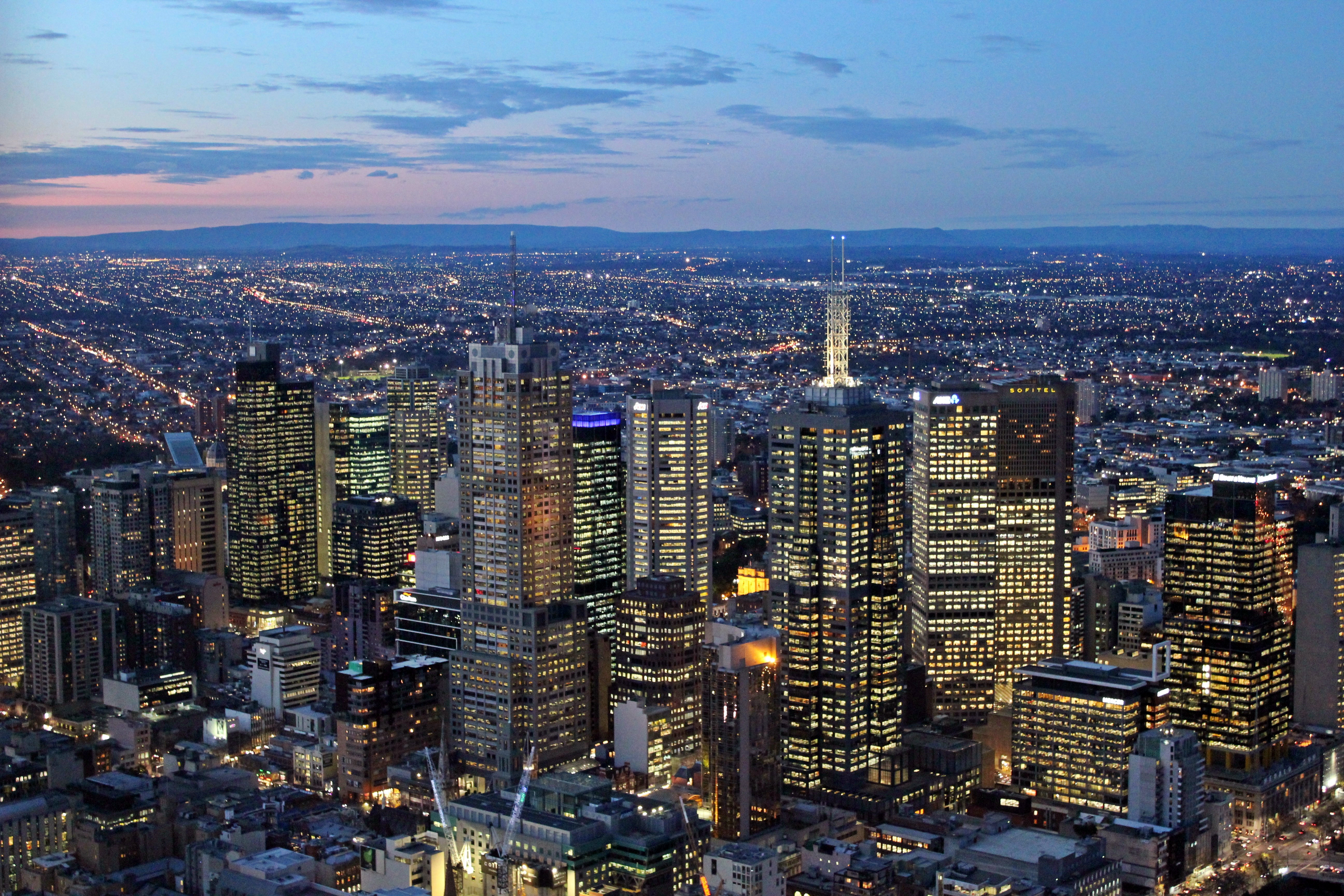 CBD of Melbourne view from Eureka Tower, Australia.